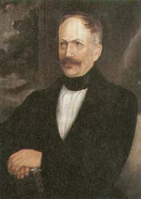 Oil painting of José María Obando del Campo President of the Republic of the New Granada now Colombia.